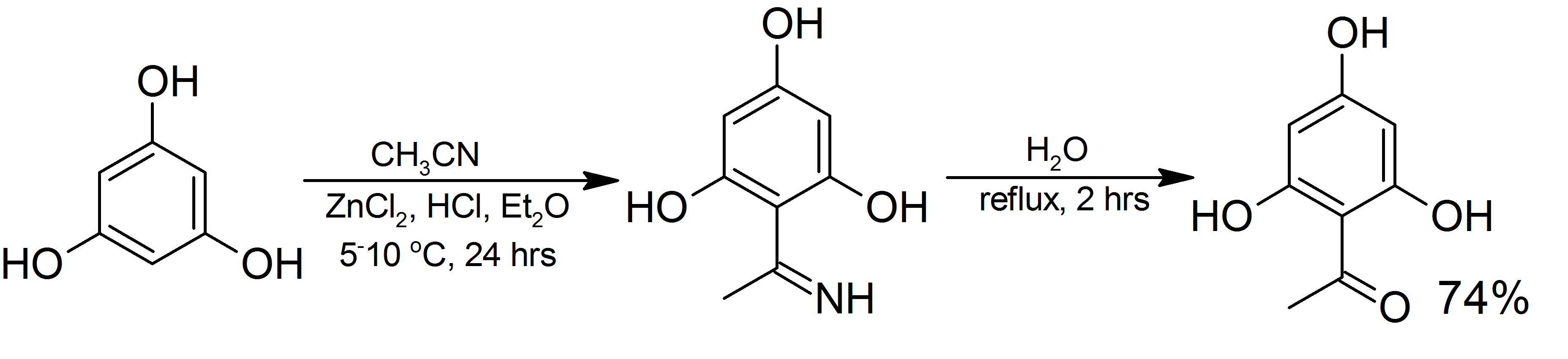 A Hoesch reaction example, 1-(2,4,6-trihydroxyphenyl)ethanone from phloroglucinol